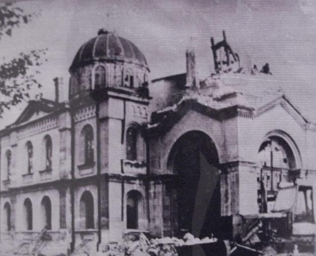 Demolition of Vseh Svyatih